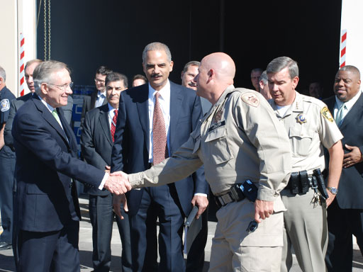 Nevada Senator Harry Reid, U.S. Attorney General Eric Holder, and Las Vegas Metropolitan Police Department Sheriff Doug Gillespie greet law enforcement officers